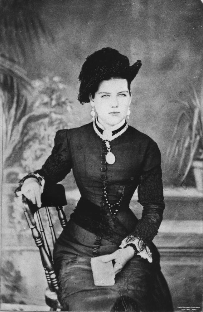 Woman seated in a chair at Cooktown, Queensland, 1880-1890 Studio portrait of a woman wearing a dress buttoned up the front with a fitted waistline, long sleeves and a high neckline. She is wearing jewellery including a brooch, pendant and earrings.